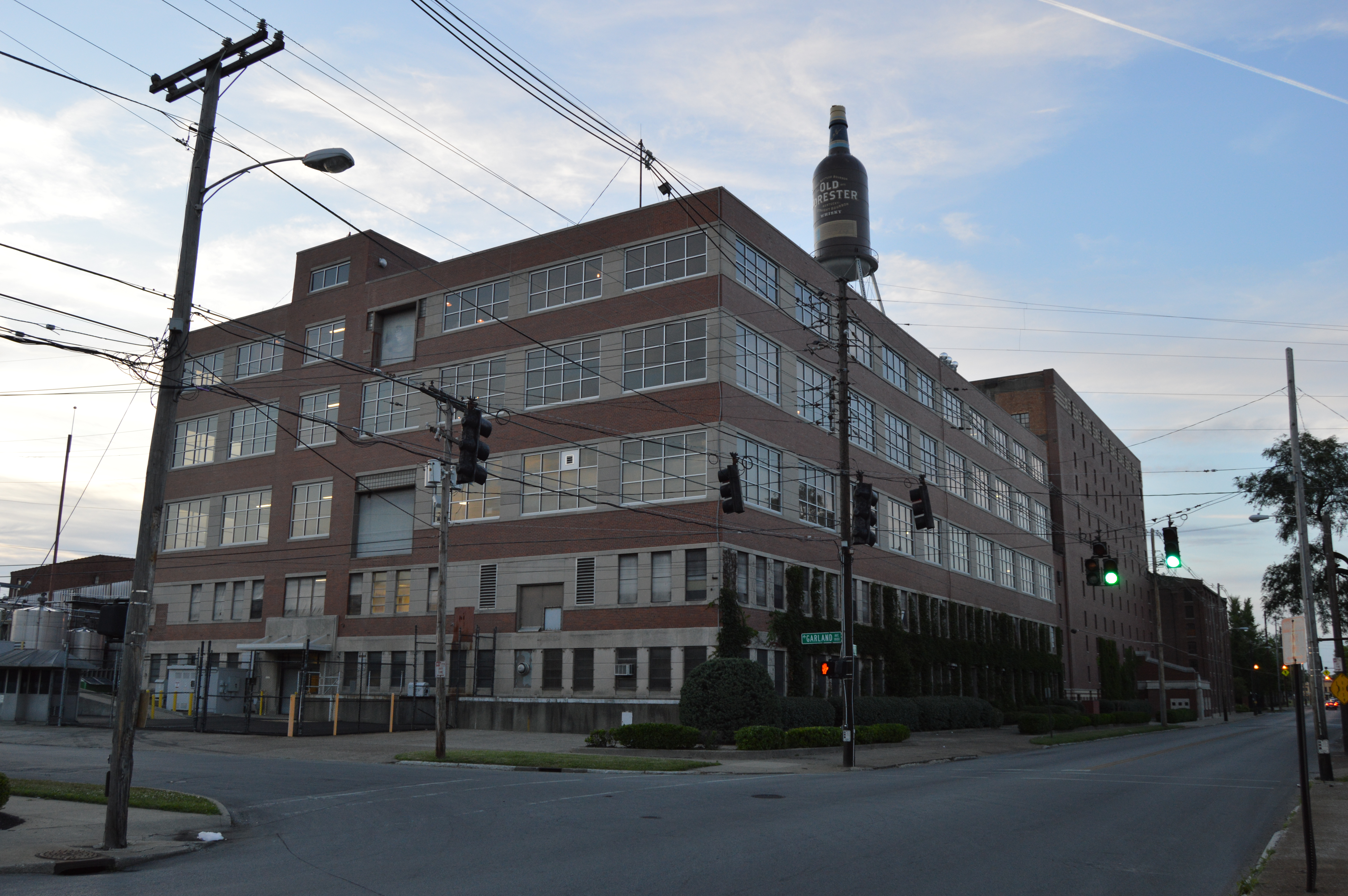 View from the south of Warehouse A of the Brown-Forman Corporation, located on the Dixie Highway (U.S. Route 60) south of the Howard Street intersection in Louisville, Kentucky, United States. It is the northern of the two buildings visible here, with a bottling facility closer to the camera. Built in 1935, it is listed on the National Register of Historic Places.